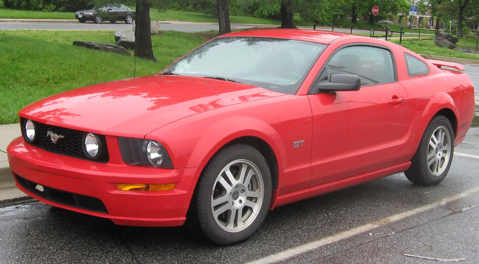 2005-2008 Ford Mustang photographed in College Park, Maryland, USA.